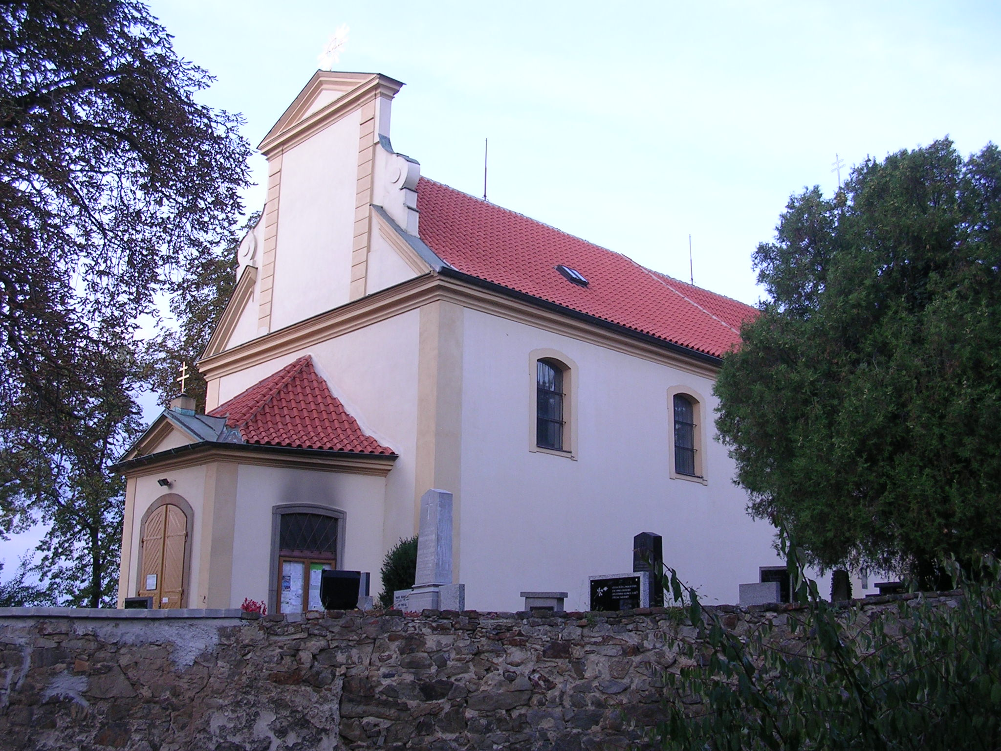 Modřany, Prague, the Czech Republic. Virgin Mary Assumption church.